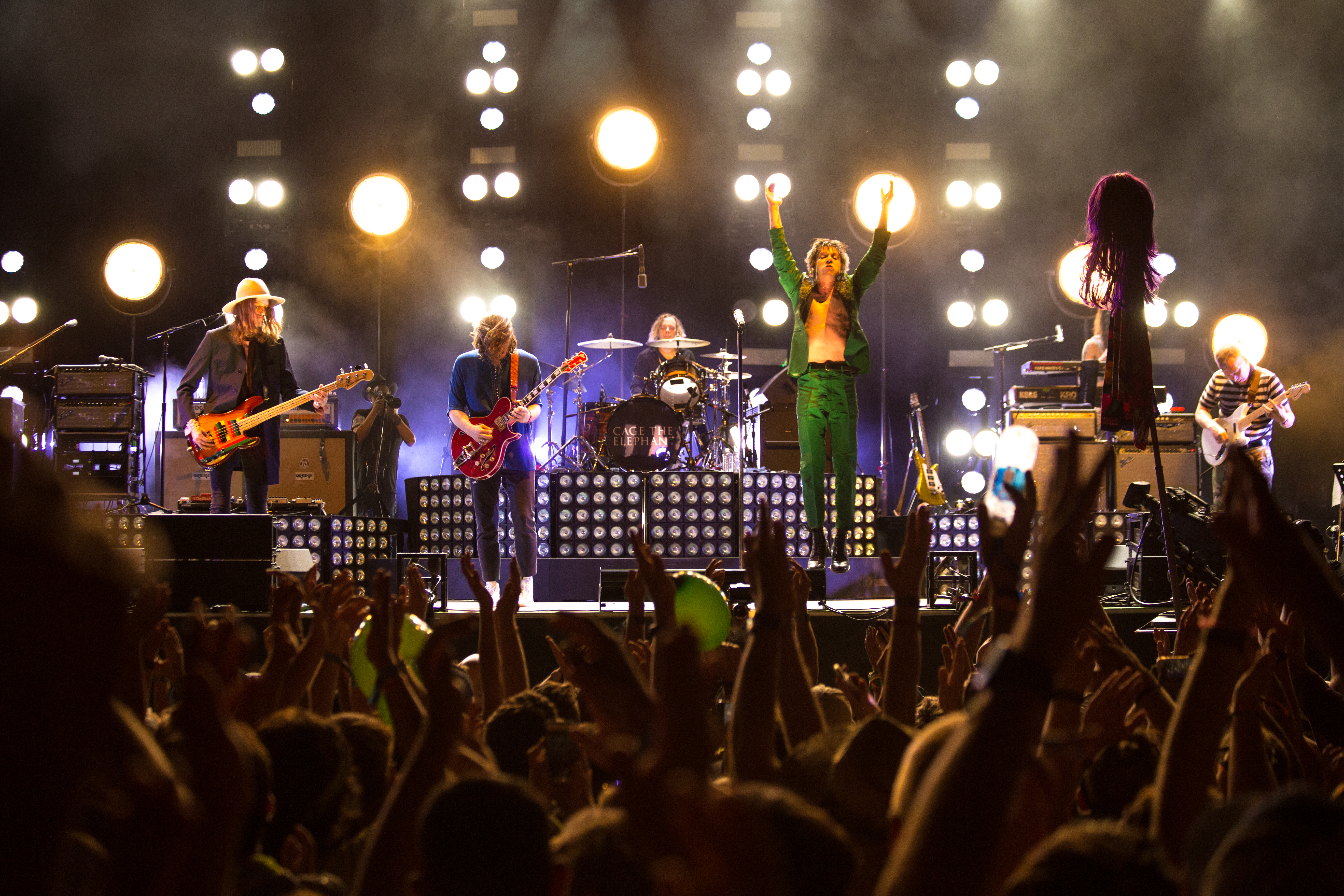 Cage the Elephant performs live at the 2017 Bonnaroo Music & Arts Festival